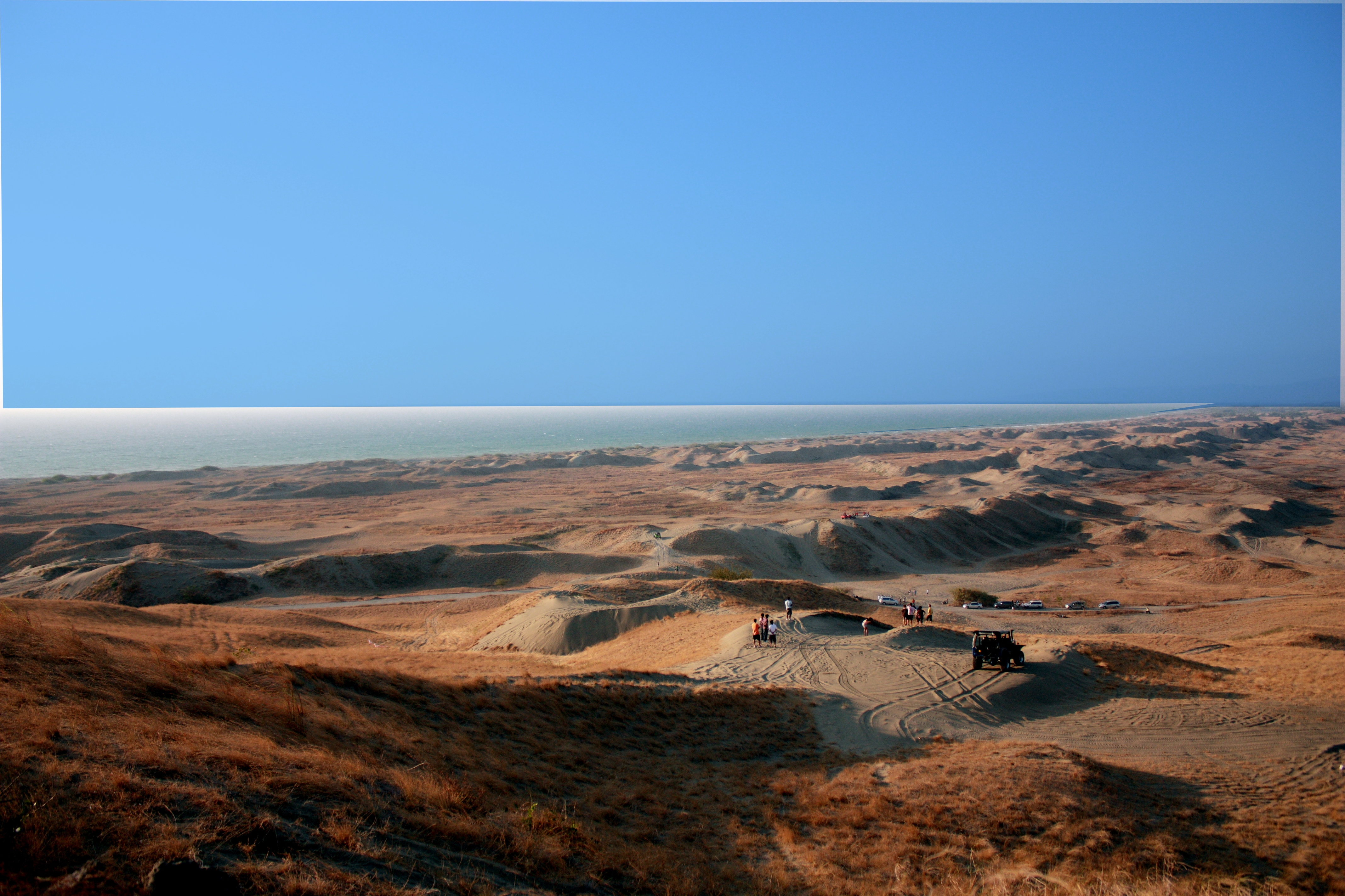 La Paz Sand Dunes in Ilocos Norte, Philippines